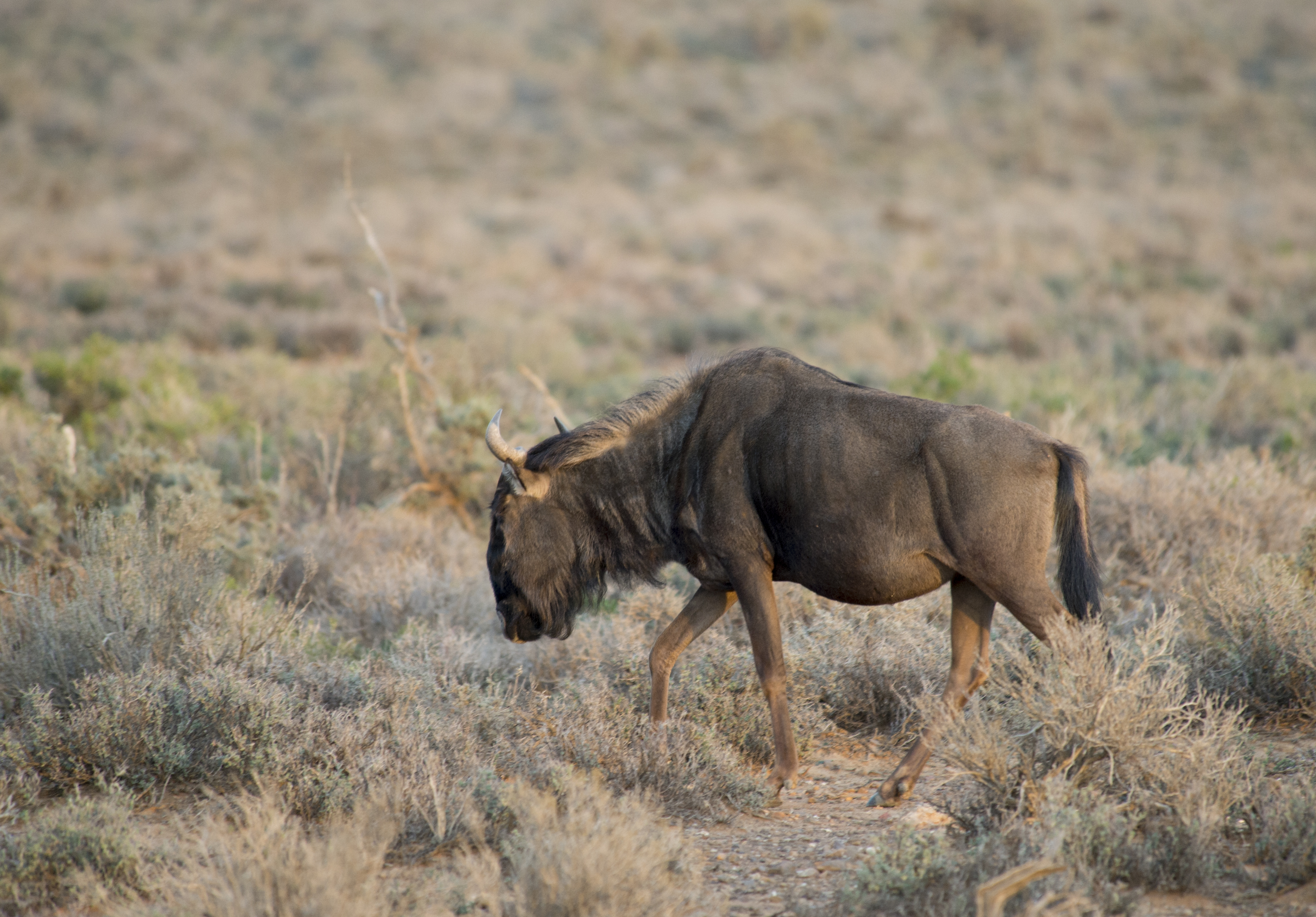 Ñus en Sudáfrica 4 en la reserva Inverdoorn